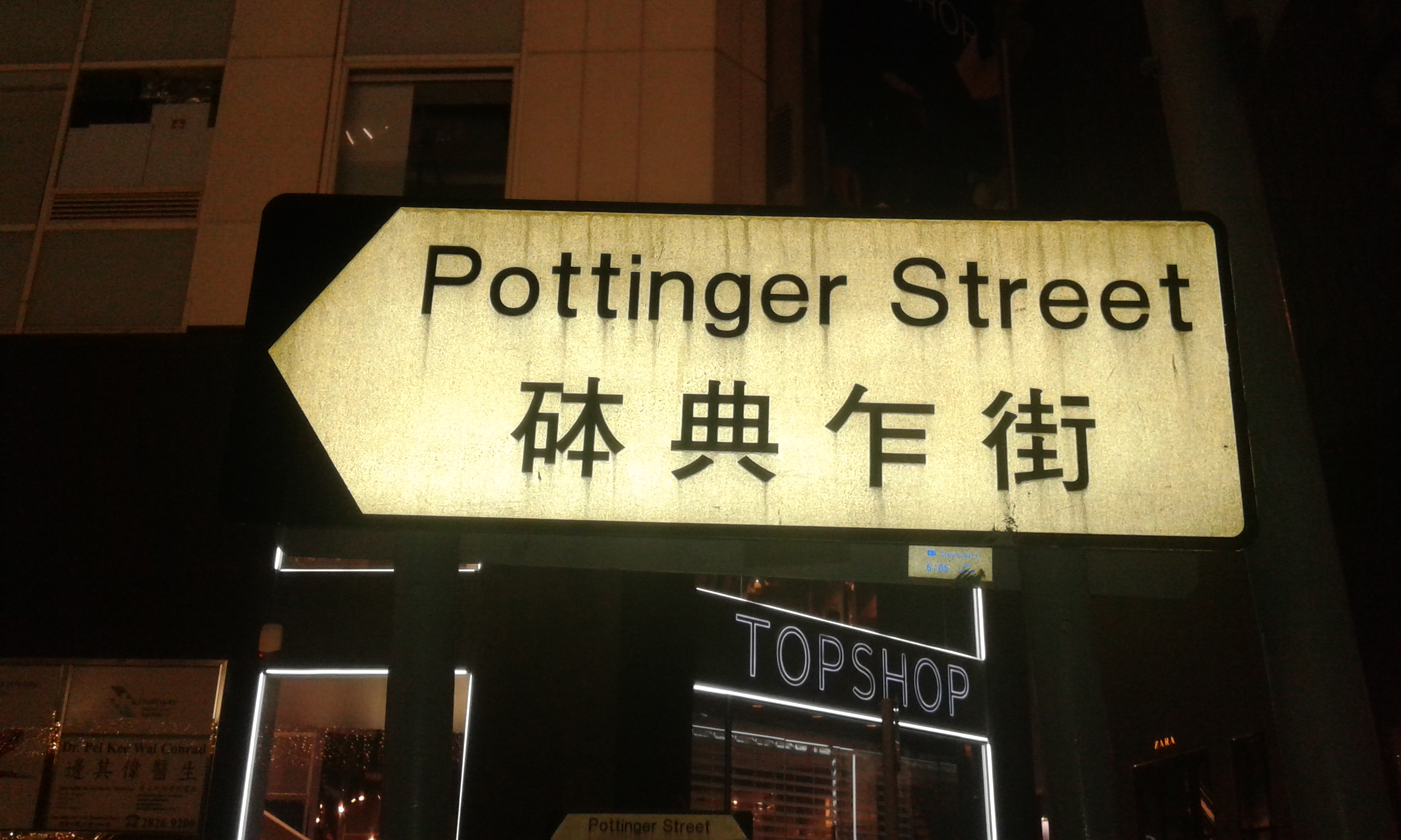 Street sign for Pottinger Street, Hong Kong